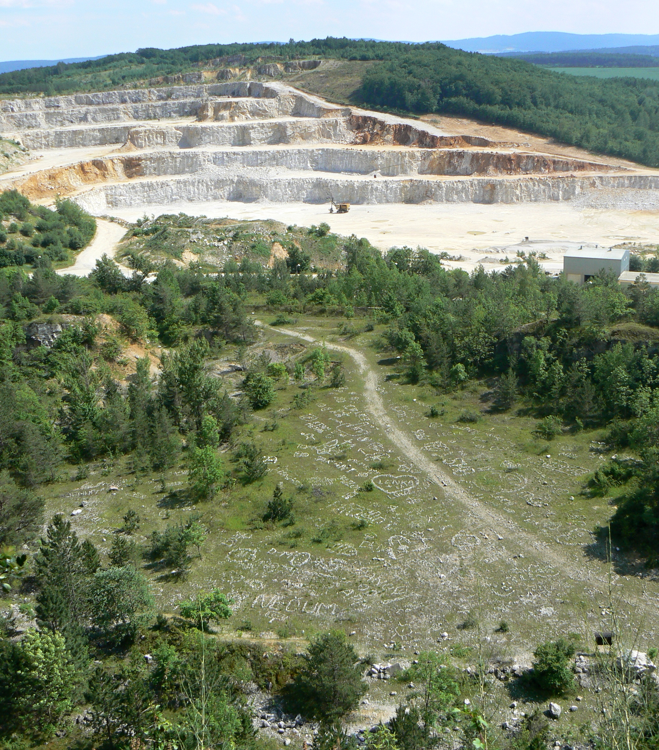 Open quarry near national nature monument Zlatý kůň in Beroun District